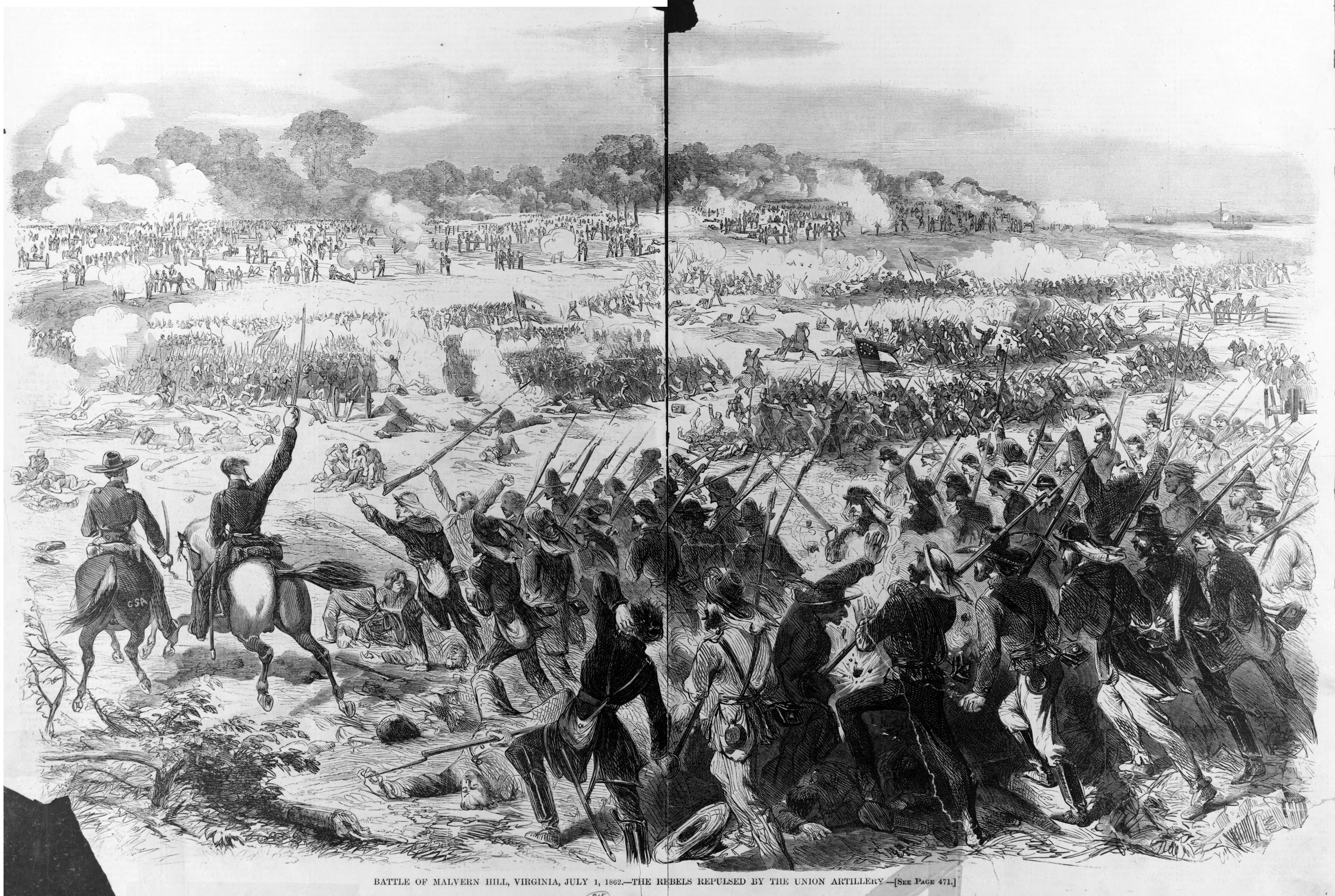 "Battle of Malvern Hill, Virginia, July 1, 1862 – the Rebels repulsed by the Union artillery". Print shows Confederate infantry attacking Union artillery during the battle at Malvern Hill, Virginia, the beginning of July 1862. General George B. McClellan, of the Union, had well positioned his artillery and the Confederate infantry, under General John B. Magruder, suffered heavy casualities during the attack. Illus. in: Harper's Weekly, v. 6, no. 291 (1862 July 26), p. 472-73.